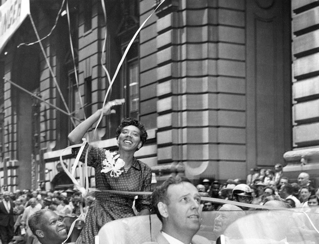 Photograph of Althea Gibson, afforded a ticker tape parade in New York City after she won the 1957 Wimbledon Women's Singles Championship Caption reads as follows: N.Y. HAILS 'QUEEN'—A radiant Althea Gibson, who became tennis queen of the world by winning the Wimbledon matches in England, waves from an open car as she receives the traditional New York ticker tape welcome two days after her return to this country. Miss Gibson, who played paddle tennis on the city streets, is the first member of her race to win the title. In the car with her (lower left) is Manhattan Borough President Hulan Jack.